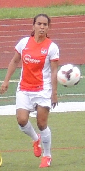 June 15, 2014 Monica Ocampo playing for Sky Blue FC against Chicago Red Stars